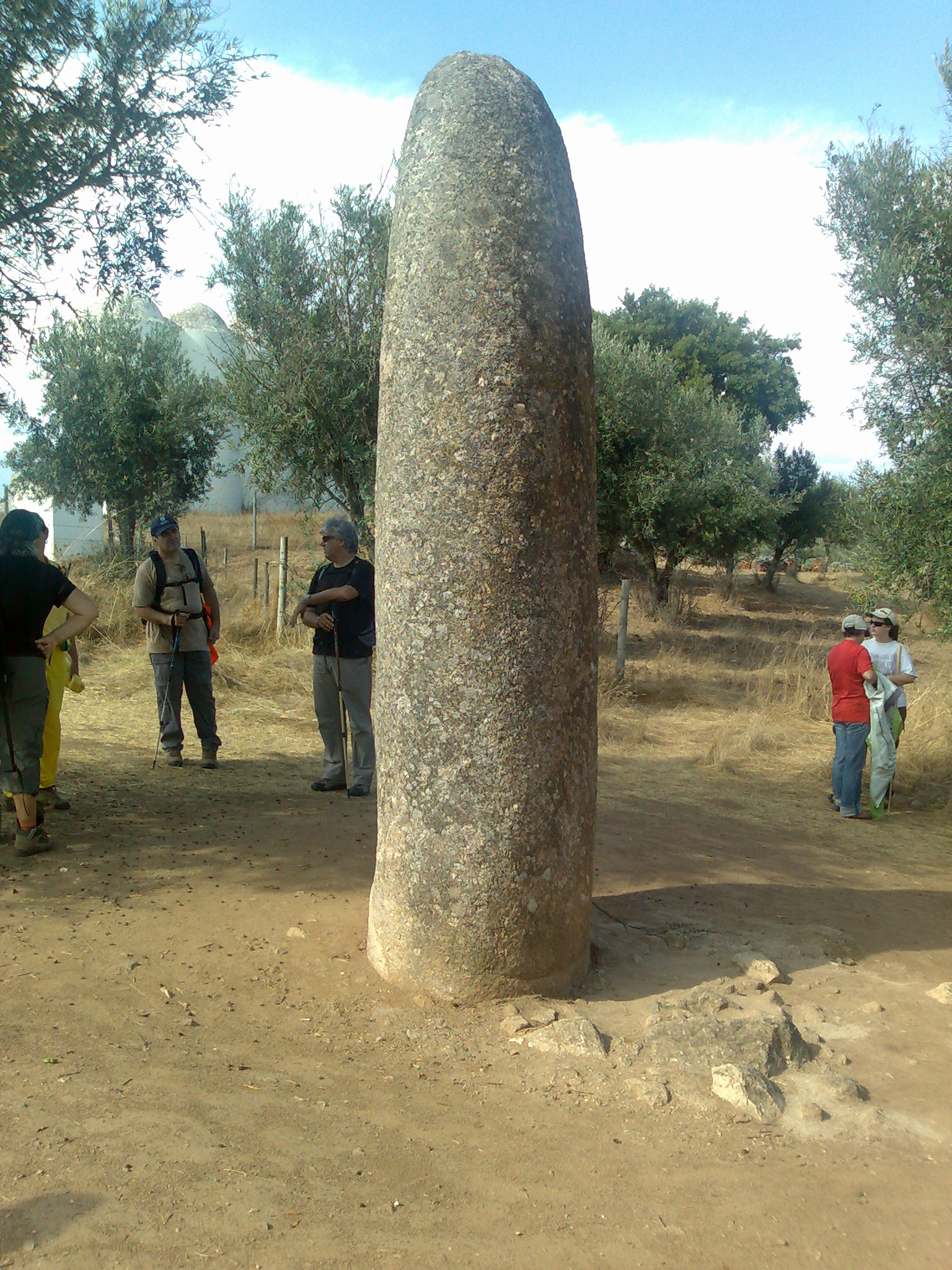 Menhir of Almendres, Portugal